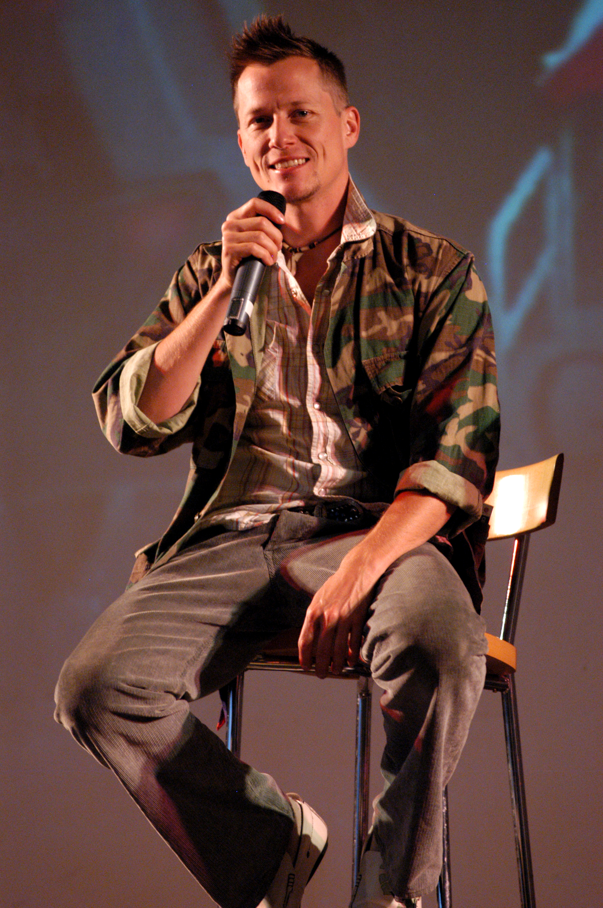 Actor Corin Nemec at Gatecon 2006 in Cheltenham, UK in August 2006